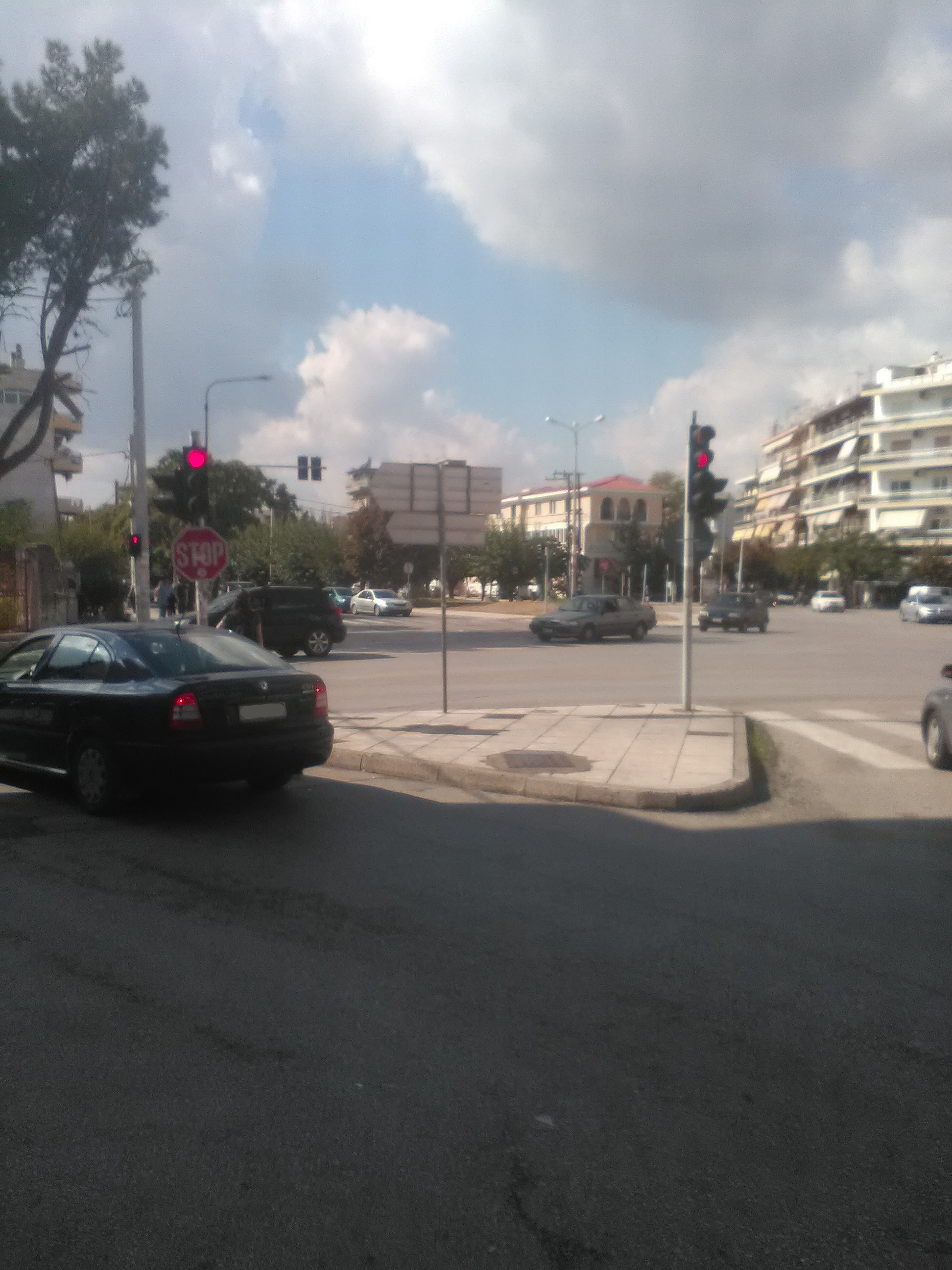 Greek National Road 2 in the city of Komotini